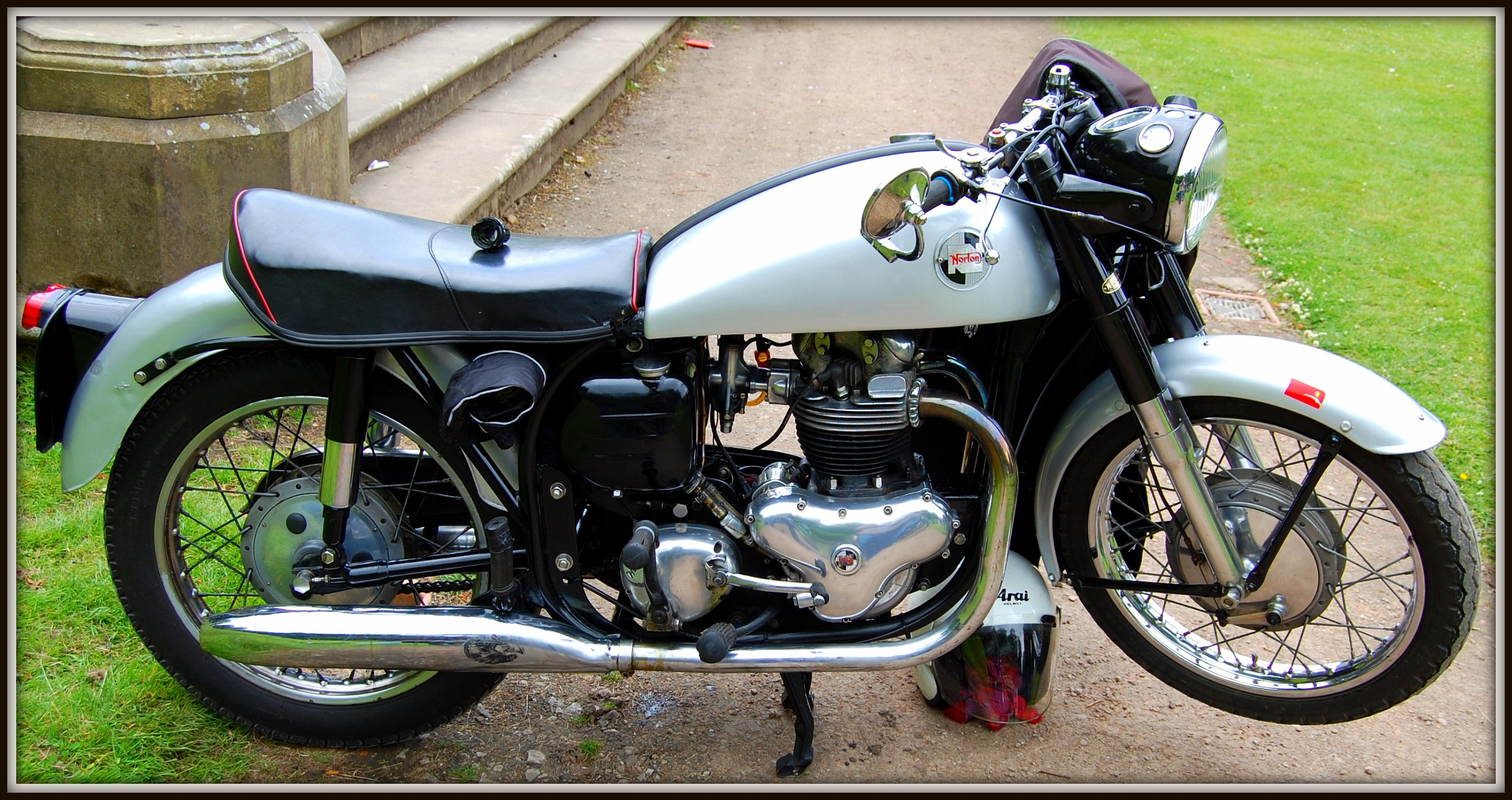 The Model 99 was added to the Norton range in 1956 in order to provide a machine with a bit more power than the existing 500cc Model 88, the extra torque quickly establishing its popularity. The larger capacity was achieved by increasing both the bore and the stroke of the engine, with which it is otherwise identical. The original magneto and dynamo electrics were replaced in 1958 by a coil, distributor and alternator set up; the Model 99 however, never did get the downdraught cylinder head. The paint finish for the Standard version was polychromatic grey with options of blue or Post Office red. The Wideline Featherbed frame on the first Model 99 was superseded by the Slimline in 1960, coinciding with a twin carburettor 99 Sports Special (99SS) being made available. There were some modifications to the clutch in the same year, the plate order being juggled in order to have the sprocket plate as a solid one. The De Luxe version was produced to satisfy a largely imaginary demand for semi enclosed machines and was Norton's response to similar efforts from Triumph and Ariel. The front half of the side panels are quickly detachable to permit access to the battery and other parts, with the rear part lifting up to facilitate wheel removal. The seat also hinges up to reveal the tool tray and the oil tank filler. Produced in the heyday of the coffee bar racer, a great many De Luxes were stripped for these purposes, resulting in it being a very rare model these days in its original trim. Colour options for the De Luxe were either red / dove grey or blue / dove grey.